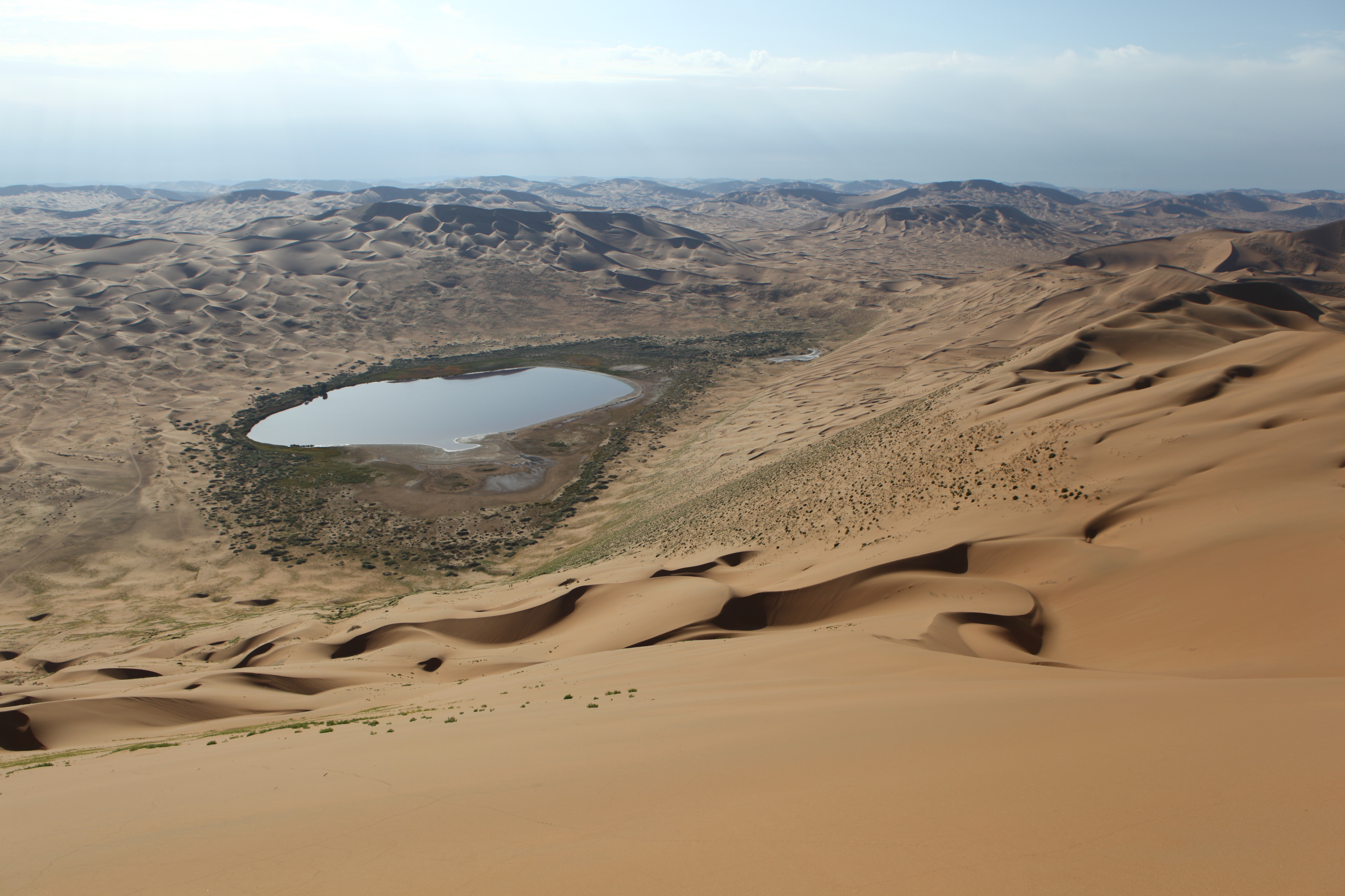 The highest point of the Badain Jaran Desert, the Bilutu Peak.